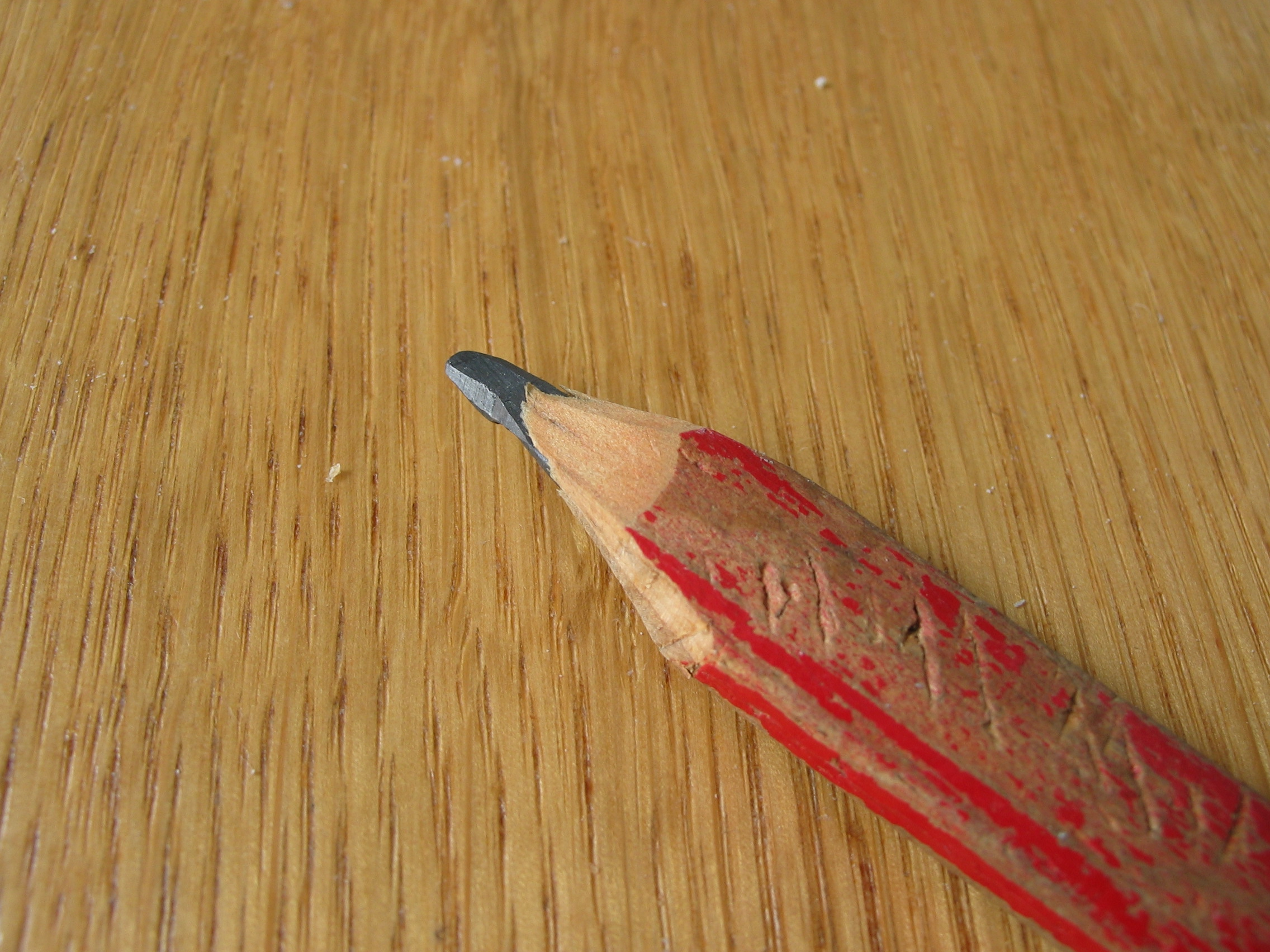 Carpenter pencil